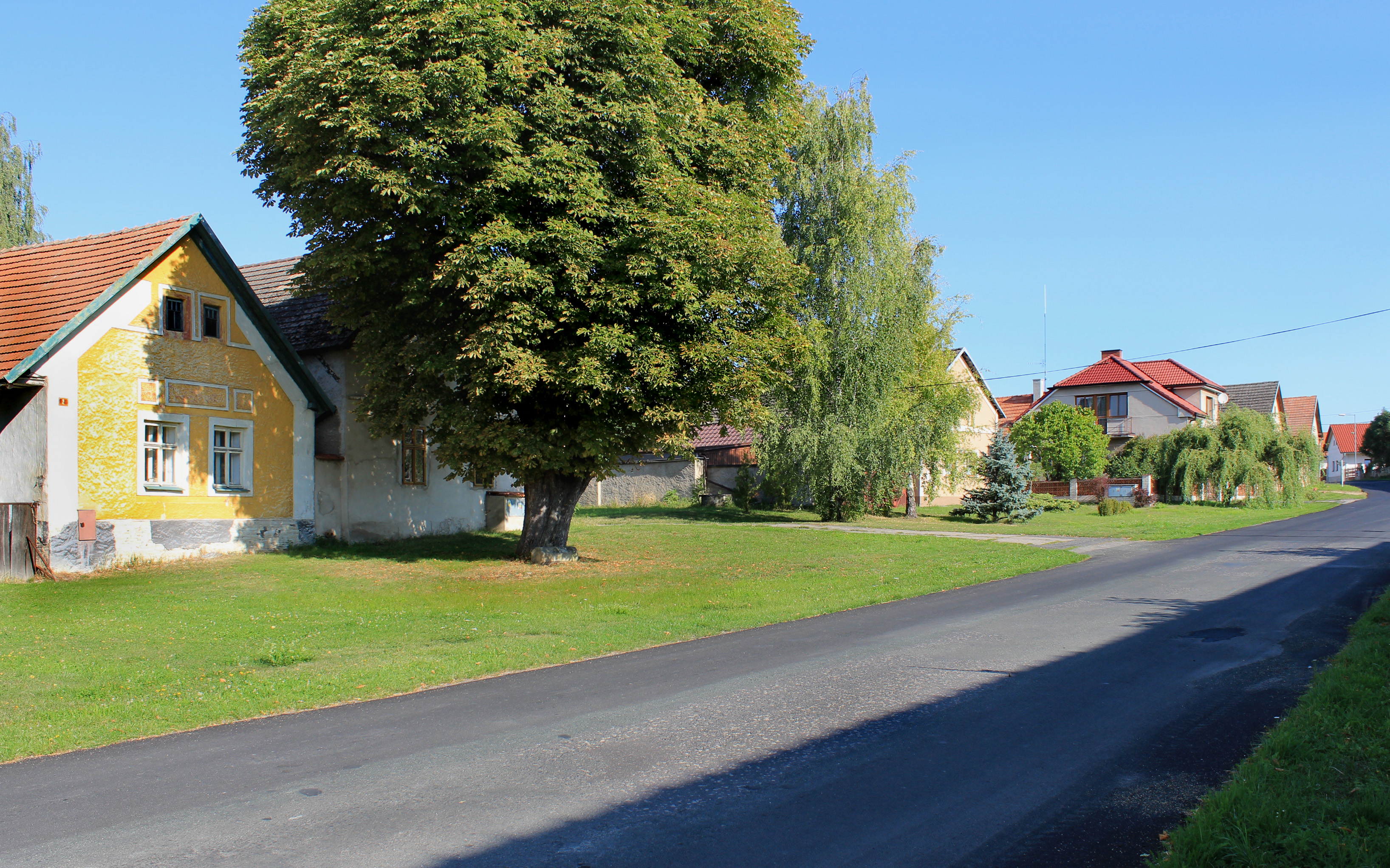 Middle part of Velenice, Czech Republic.